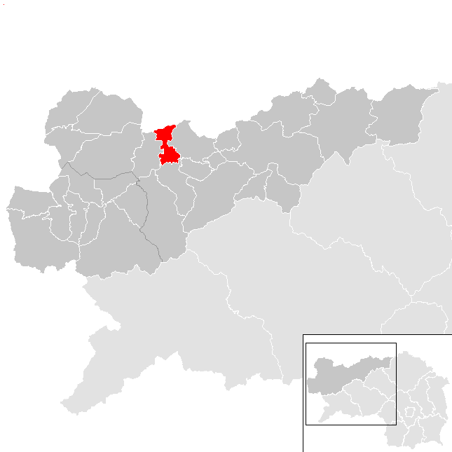 District Leoben